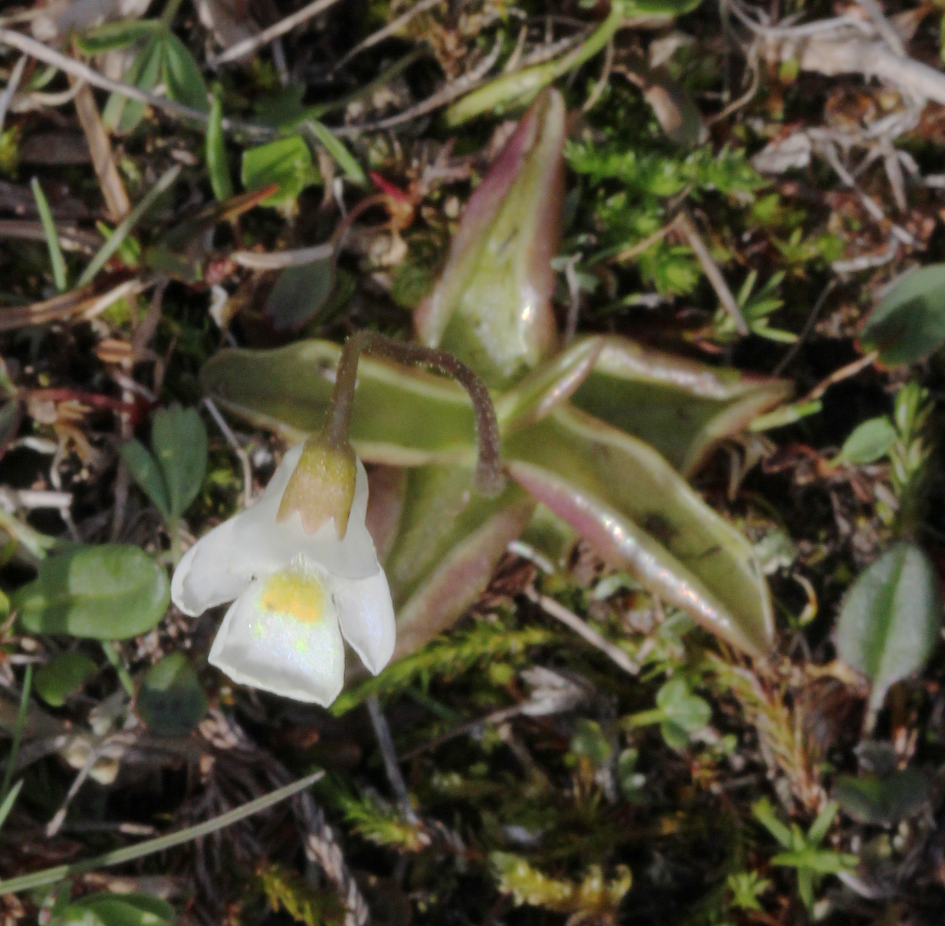 Pinguicula alpina